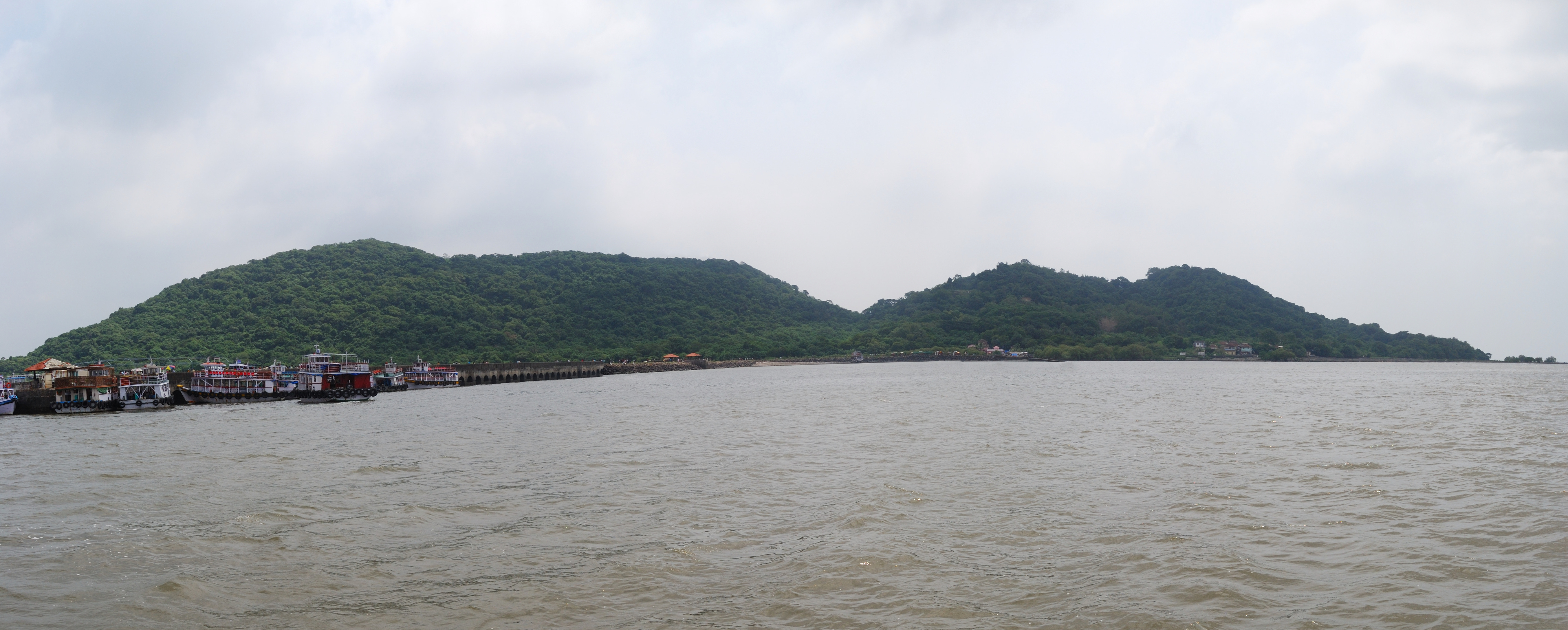 Elephanta panorama